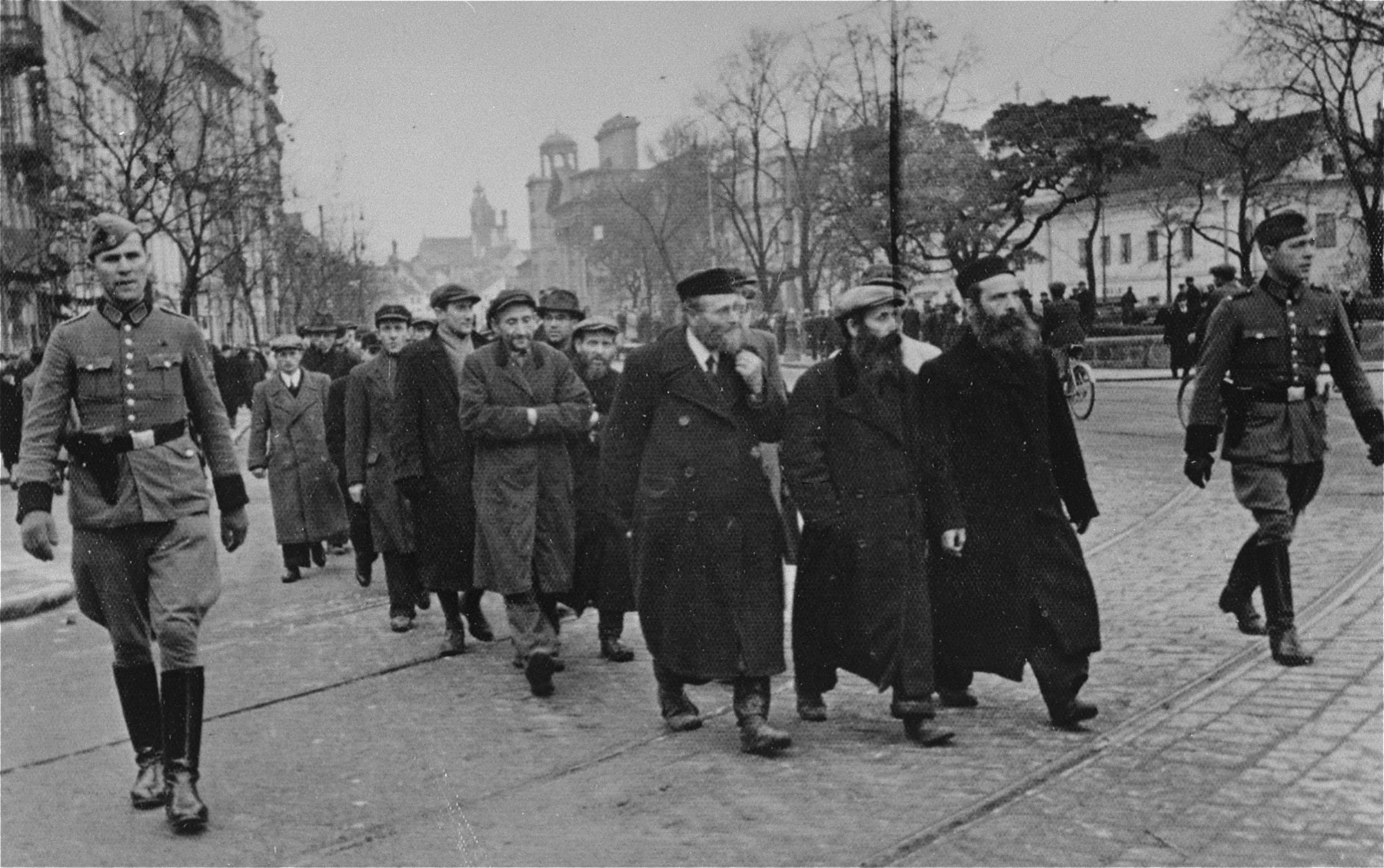 Jewish men rounded-up by German police for forced labor are escorted along Krakowskie Przedmiescie Street to a worksite.